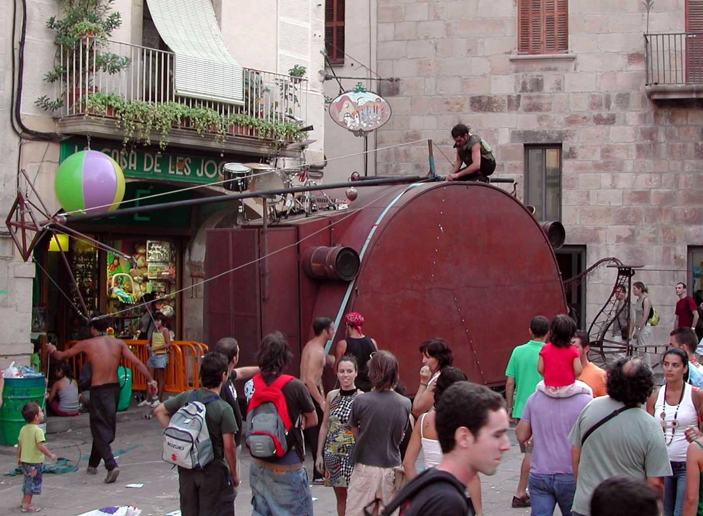 Show at the Street Theatre Fair at Tàrrega.